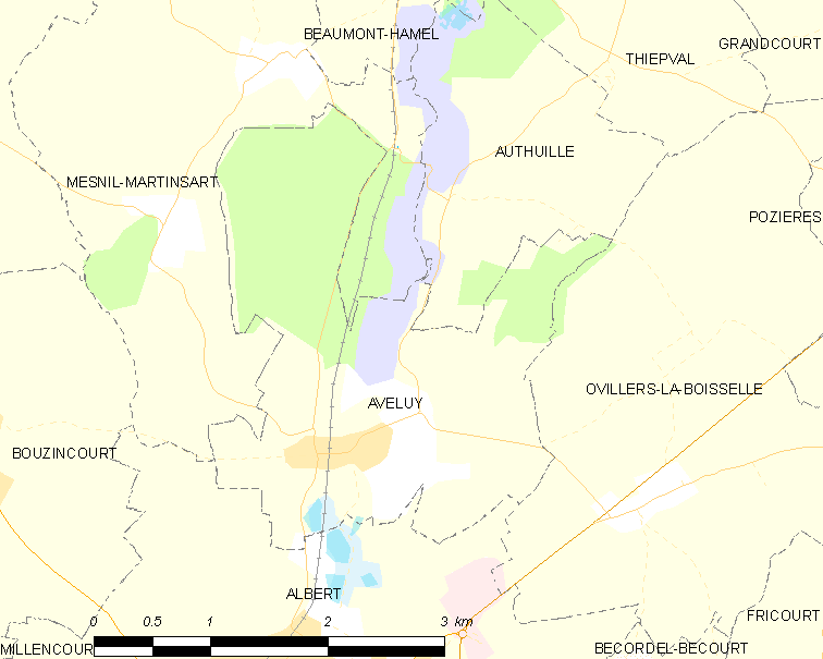 Map of French municipality Aveluy